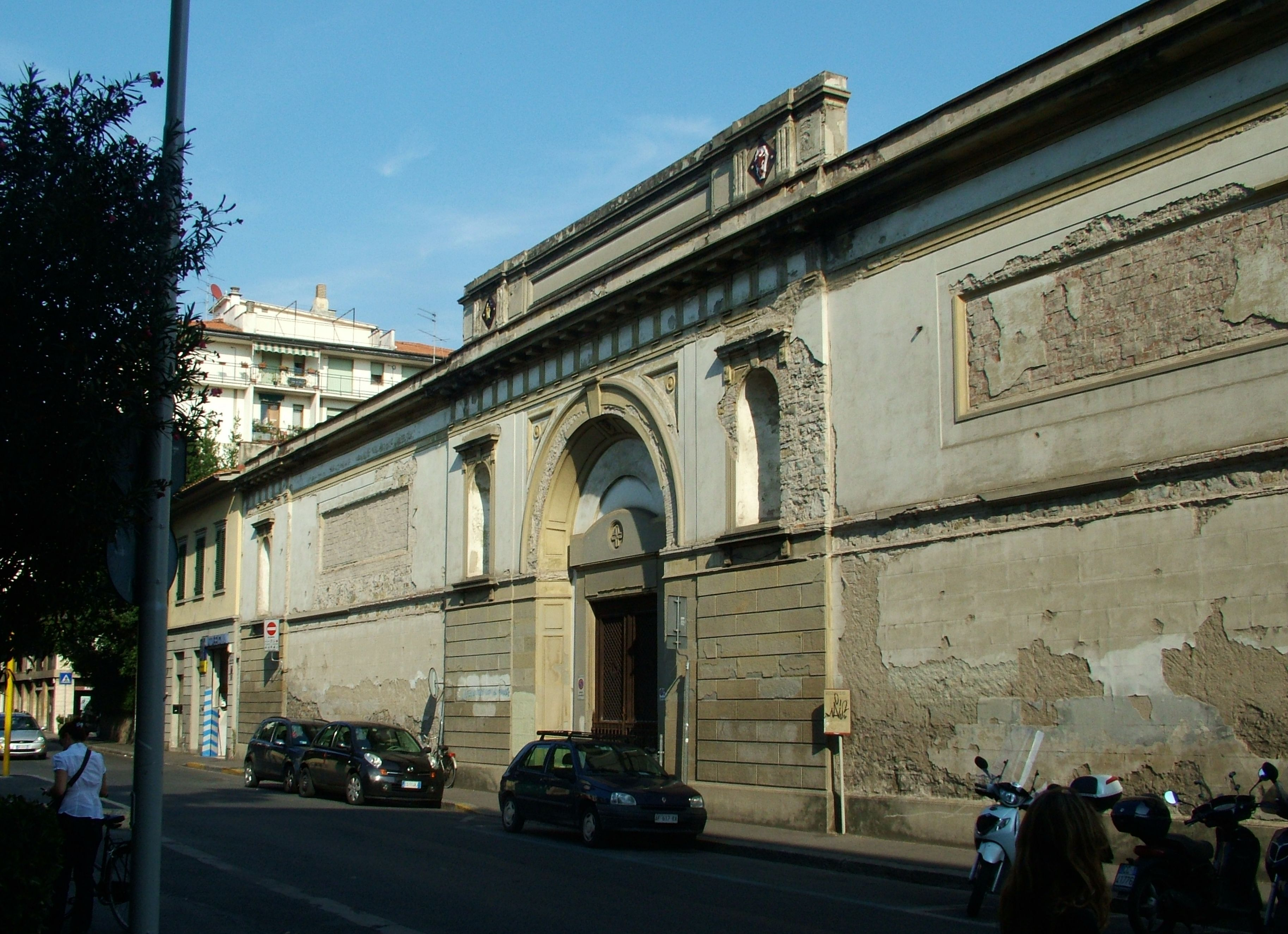 the facade of the cemetery in piazza conti, florence